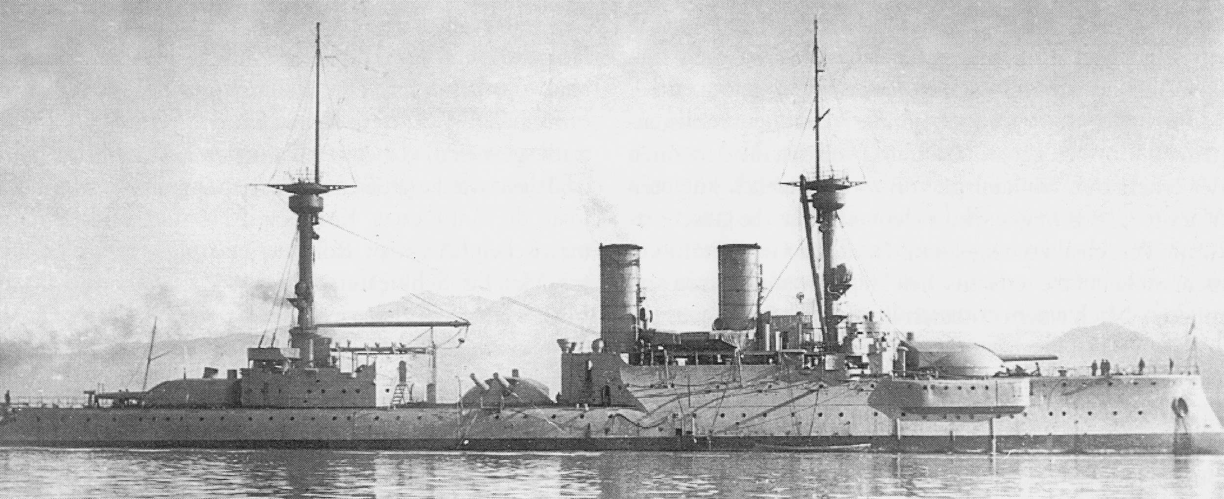 The Ottoman battleship Torgud Reis (ex SMS Weißenburgin 1915.